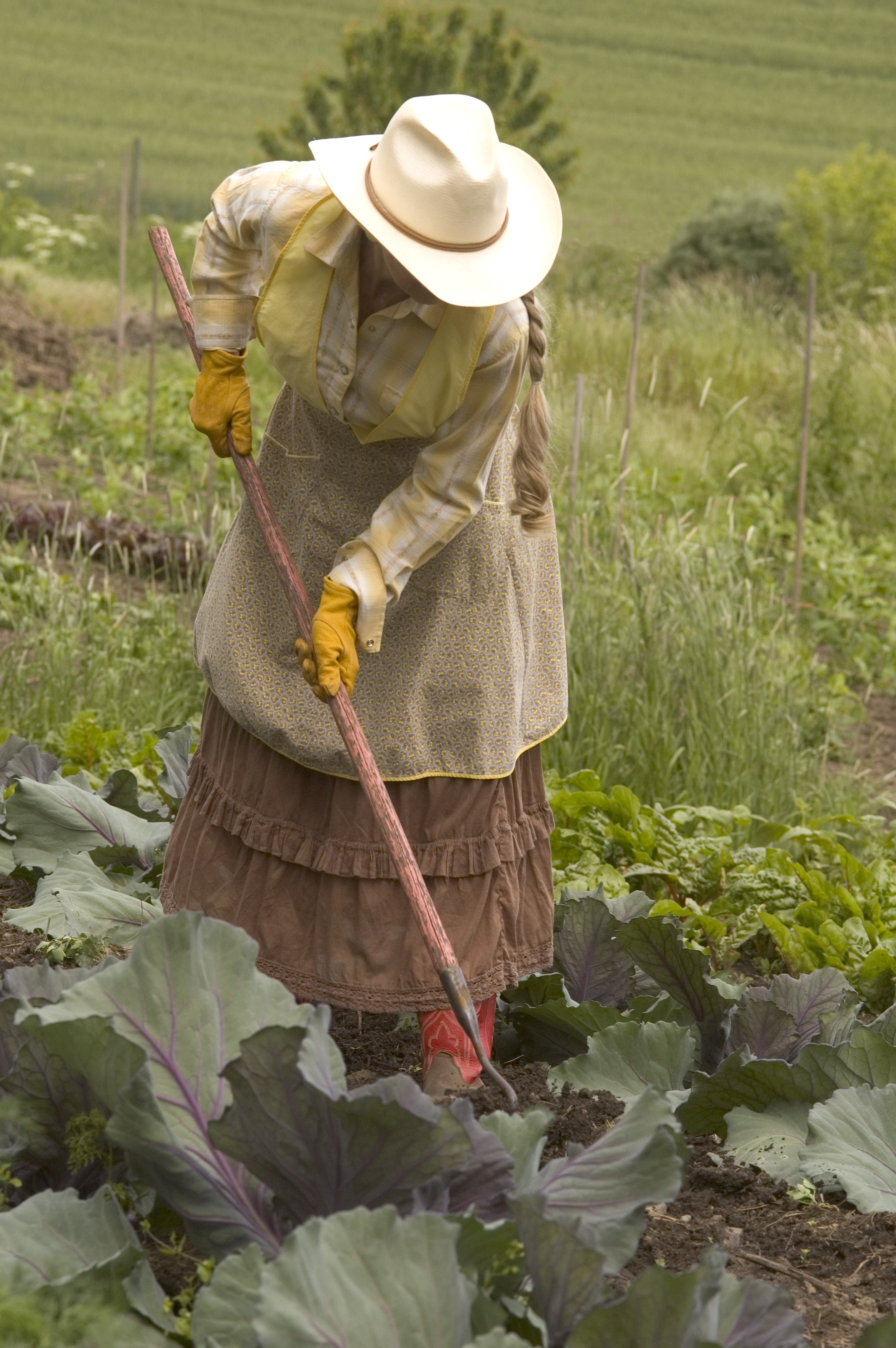 MaryJane tills her garden at MaryJanesFarm in Moscow, ID.